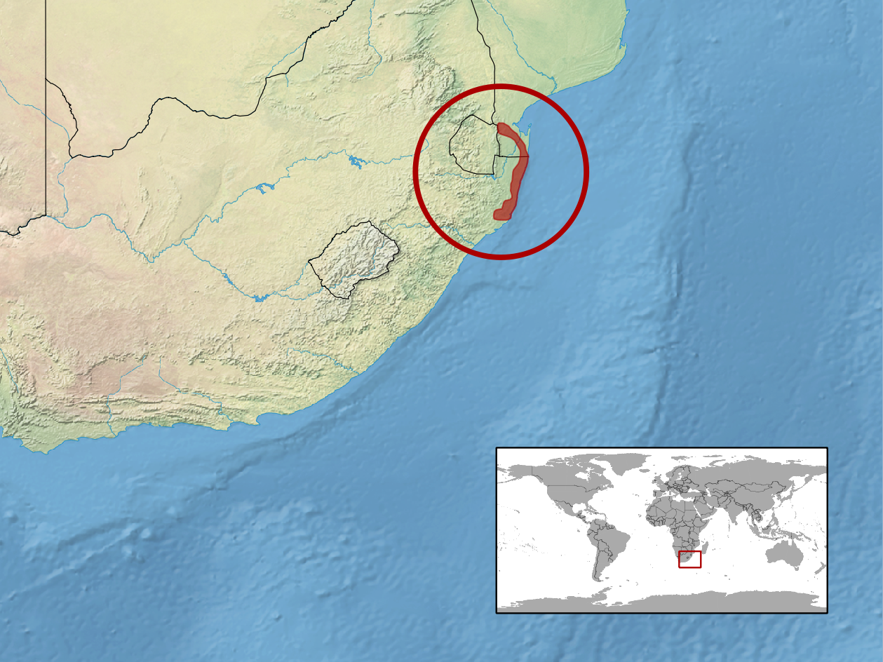 geographic distribution of Bradypodion setaroi (Native: South Africa (KwaZulu-Natal))